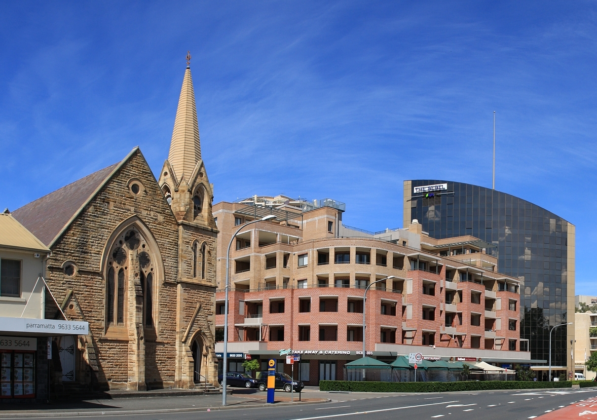 Church Street, Parramatta, New South Wales, with Congregational Church on left